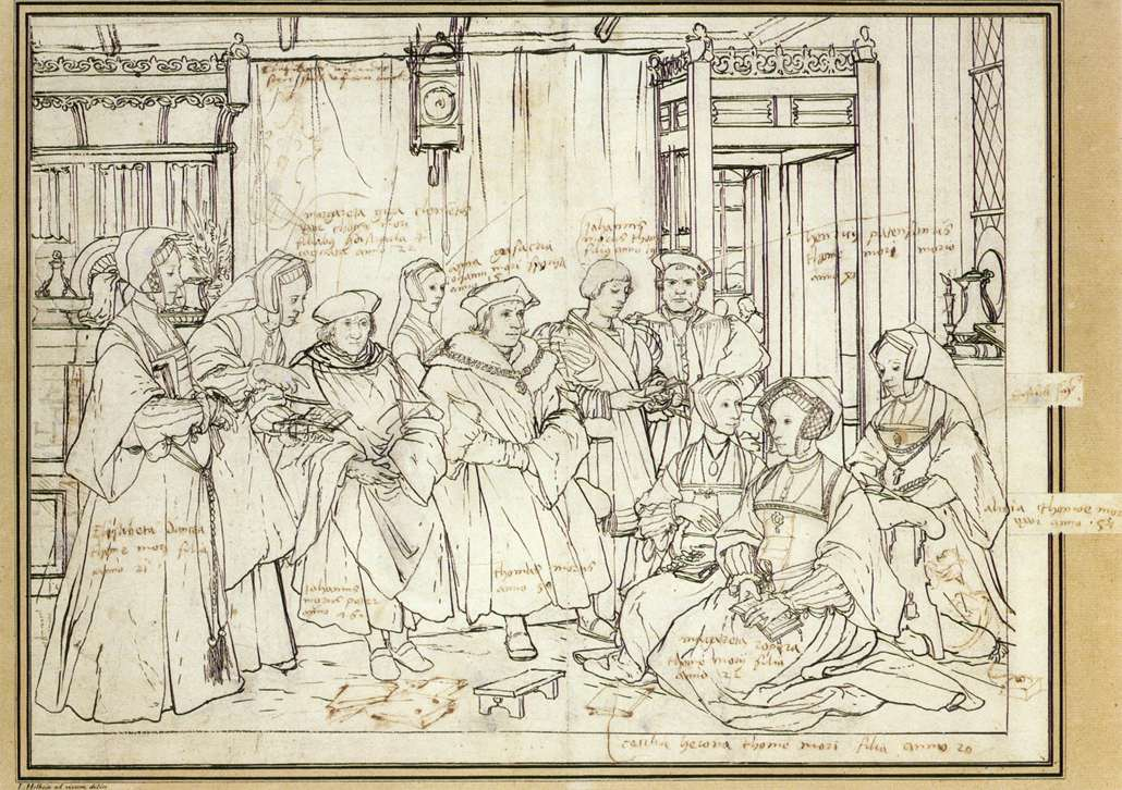 Study for the Family of Thomas More. Hans Holbein the Younger (1498–1543) Alternative namesHans Holbein the YoungerDescription German painter Date of birth/death1497 or 1498before 29 November 1543Location of birth/deathAugsburgLondonWork locationBasel, Lucerne, LondonAuthority control VIAF: 4945401 LCCN: n81117179 GND: 118552953 SELIBR: 205966 BnF: cb12030224m ULAN: 500005259 ISNI: 0000 0001 2098 7816 WorldCat